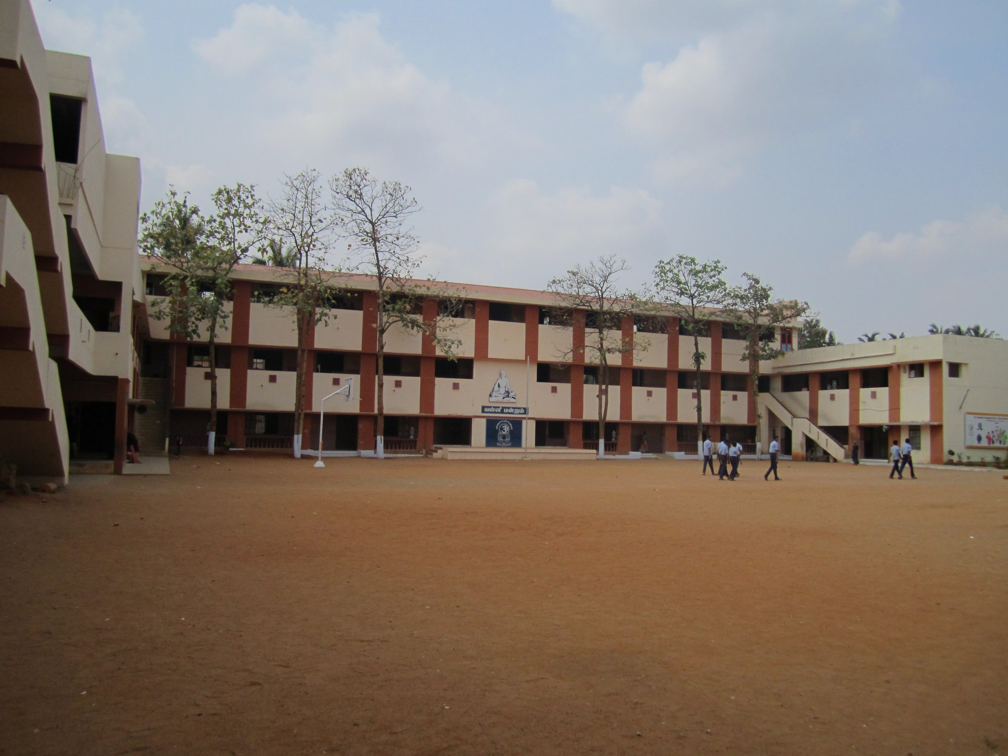 "Valli Mandram(distant view)" block Sri Jayendra Silver Jubilee School, Tirunelveli